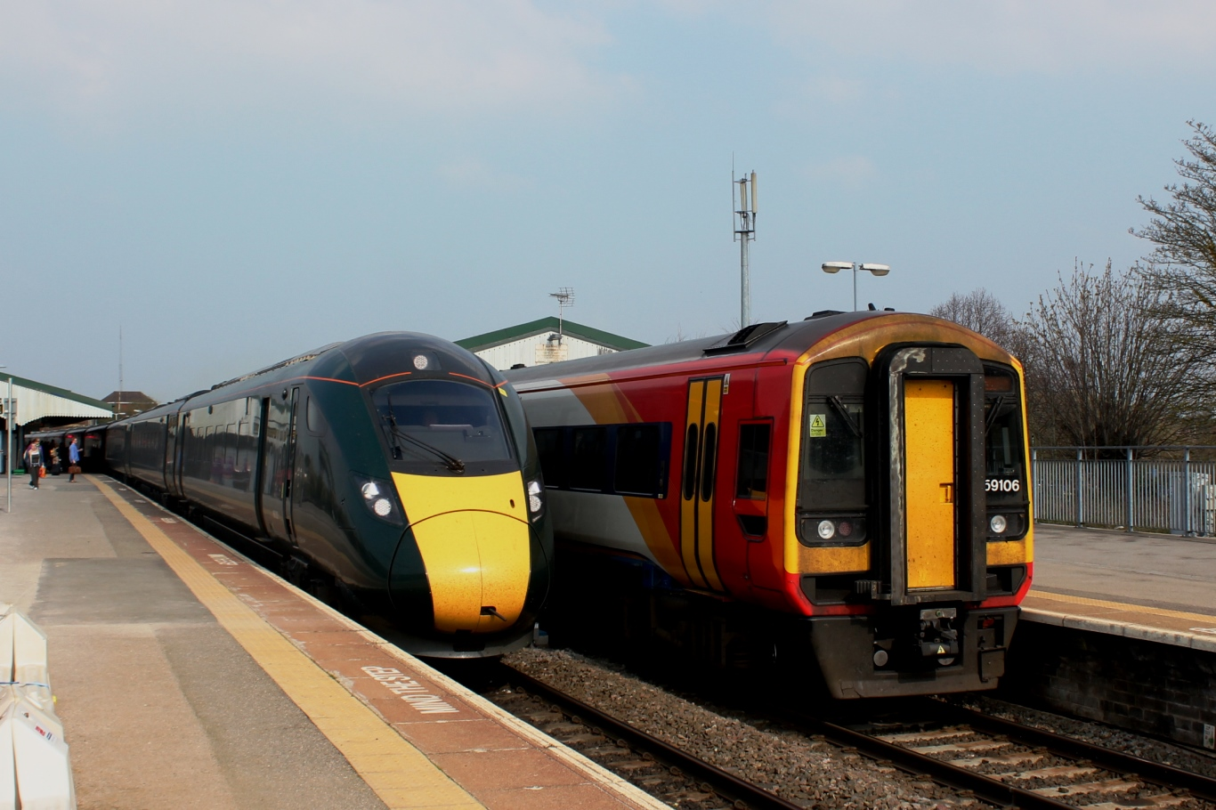 Great Western Railway 'InterCity Electric' 800302 arrives at Westbury with a London Paddington to Taunton service. South Western Railway's 159106 (coupled to 159008) is also in the station with a train from Exeter St Davids to London Waterloo which has been diverted due to engineering work between Salisbury and Yeovil.